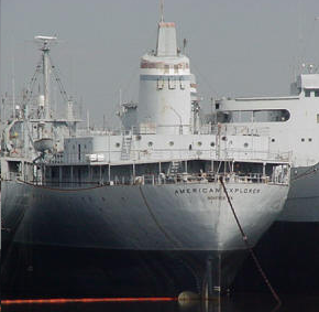 Photo of the American Explorer, retrieved from PMARS on 9-7-2008. The picture was cropped from to bring it to 290px and remove other ships from the frame, the same label appears in news coverage of the storm related dismoorings in NOLAs Industrial Canal.